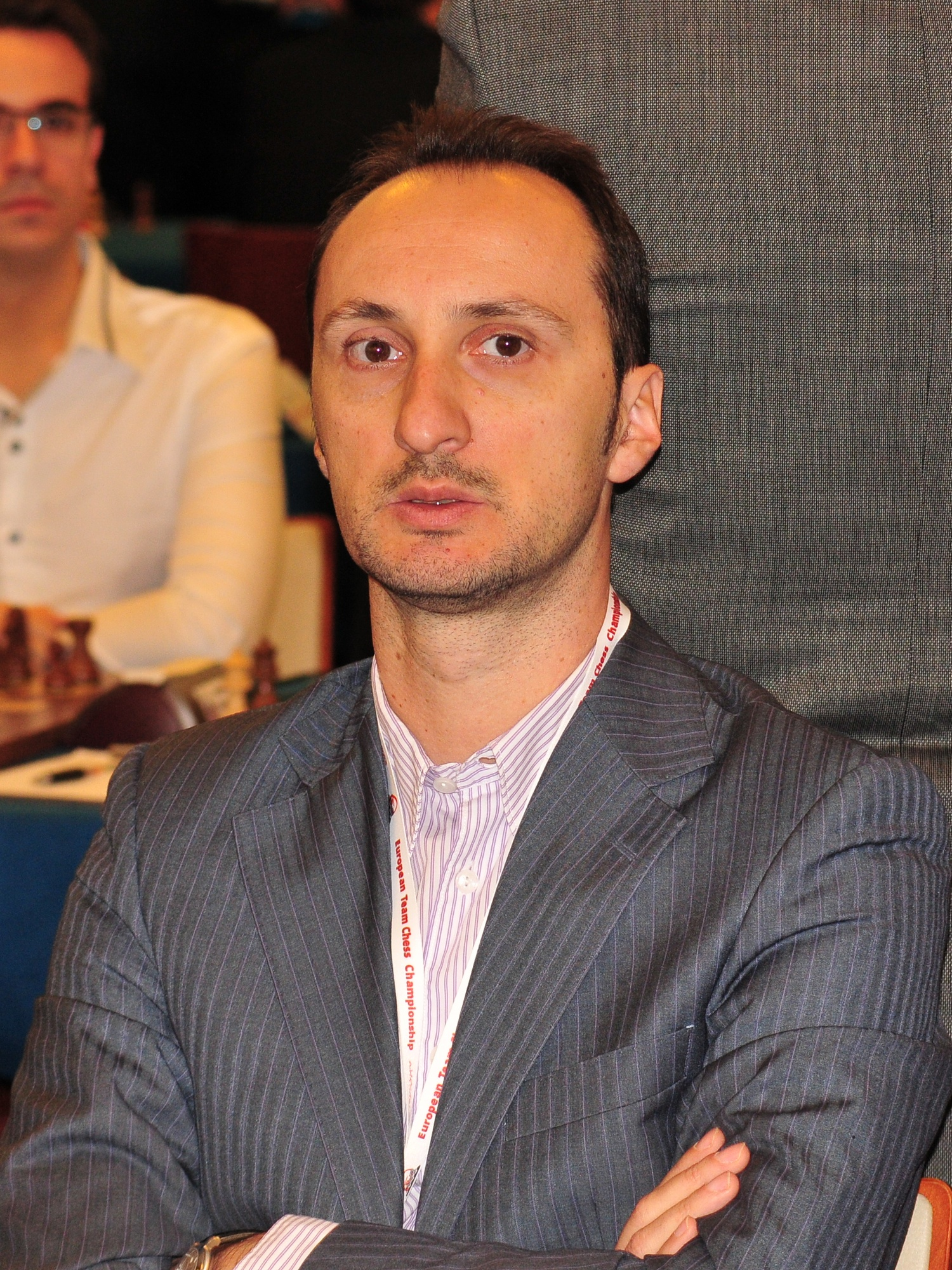 GM Veselin Topalov, European Chess Team Championship Warsaw 2013